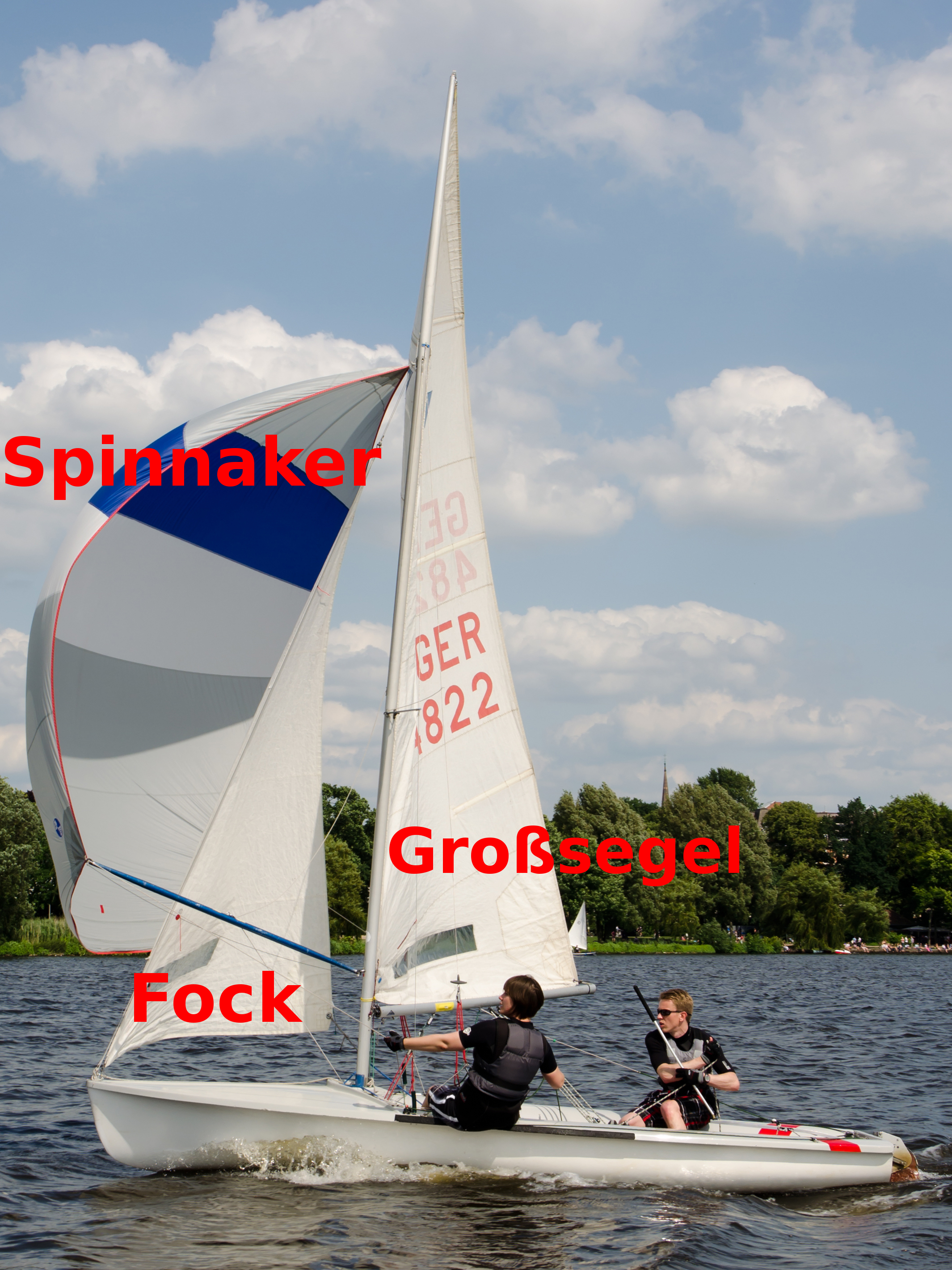 470 dinghy on Hamburg Außenalster: description of sails, revising of photo from An-d: File:470 auf der Außenalster.jpg. This photo was downloaded from File:470 auf der Außenalster.jpg and revised to describe the german names of sails